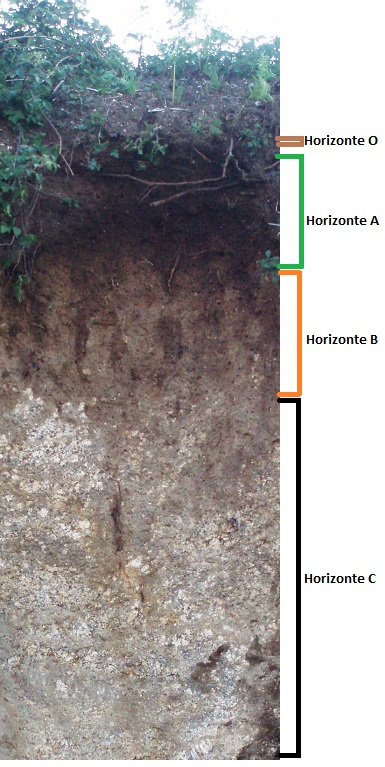 Soil profile in the region of Braga